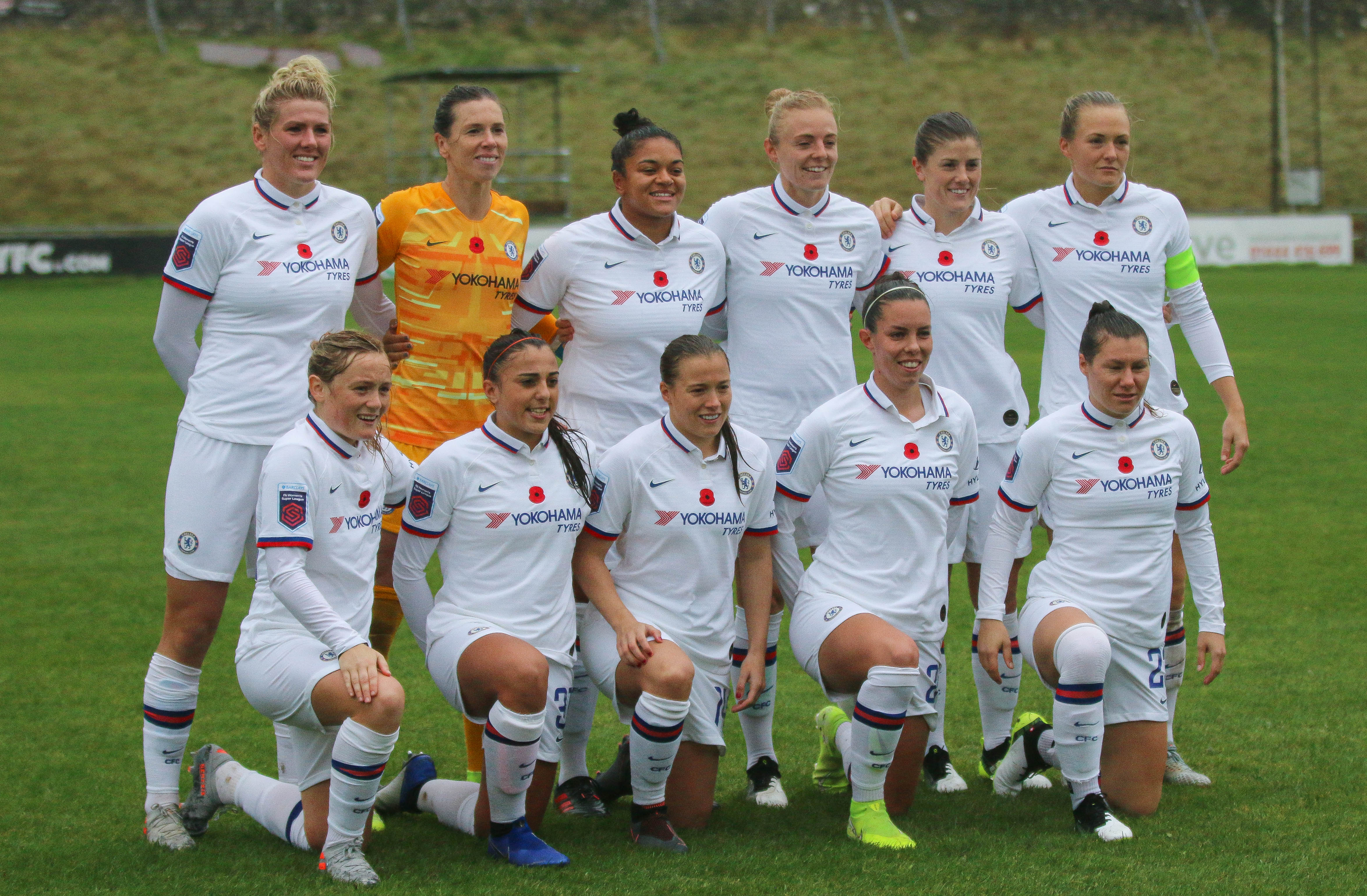 Chelsea FC Women